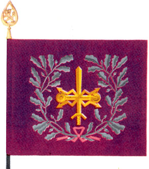 Colour of Signals regiment (Finland)